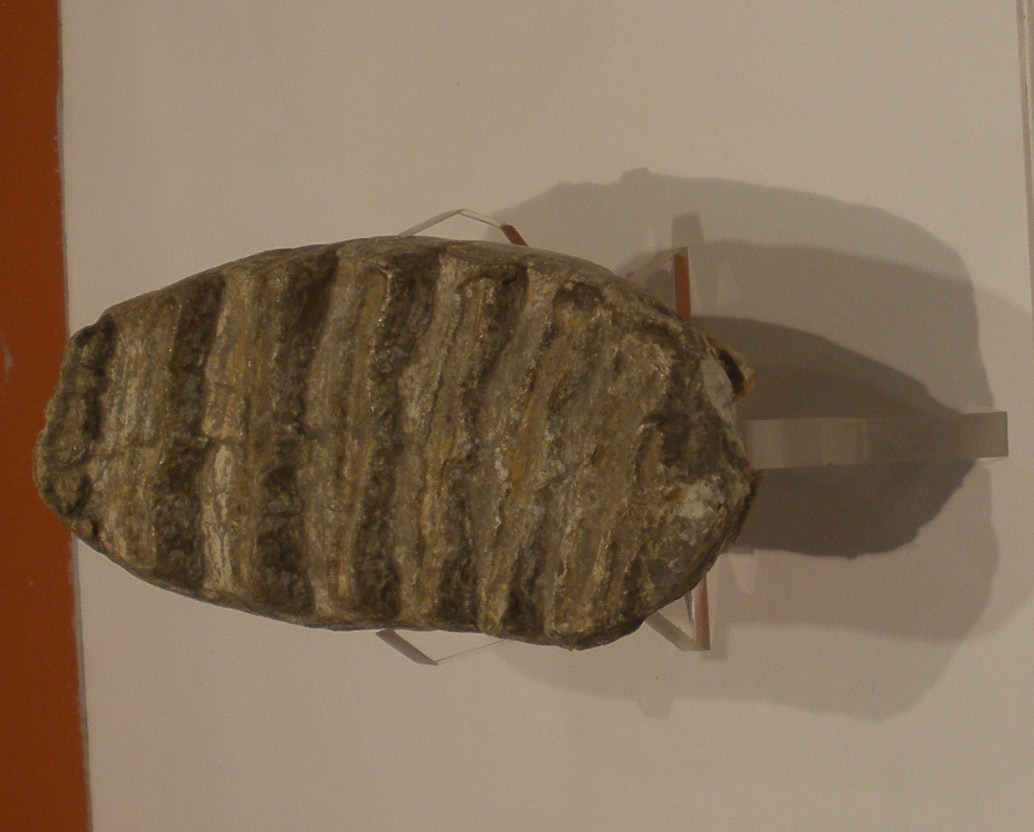 Took the photo at Museo di Storia Naturale di Verona